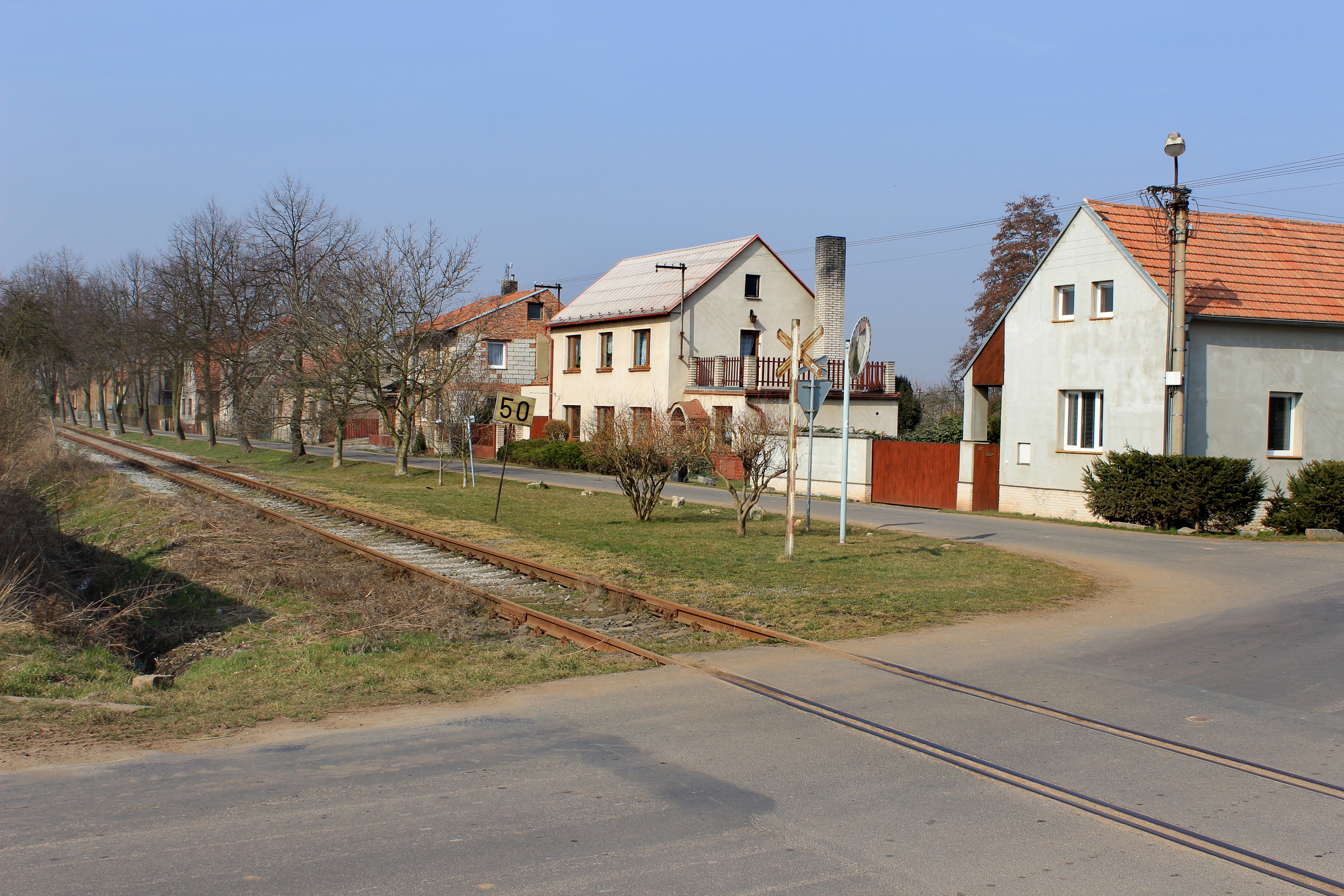 Level crossing in Chrášťany, Czech Republic.